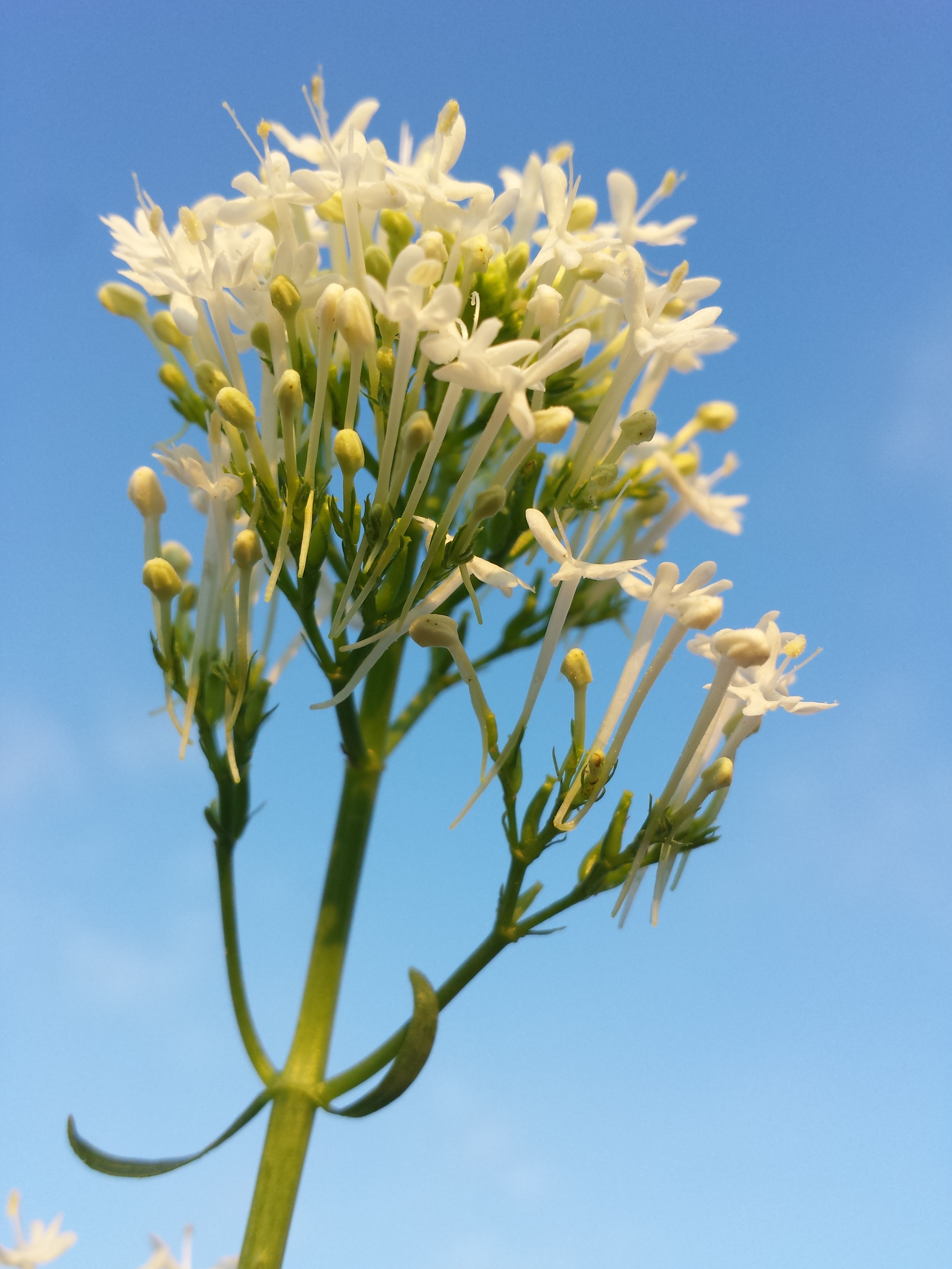 Inflorescence Taxonym: Centranthus ruber ss Fischer et al. EfÖLS 2008 ISBN 978-3-85474-187-9 Location: Bessemerstraße, Donaufeld , Vienna-Floridsdorf - ca. 160 m a.s.l. Habitat: ruderal area